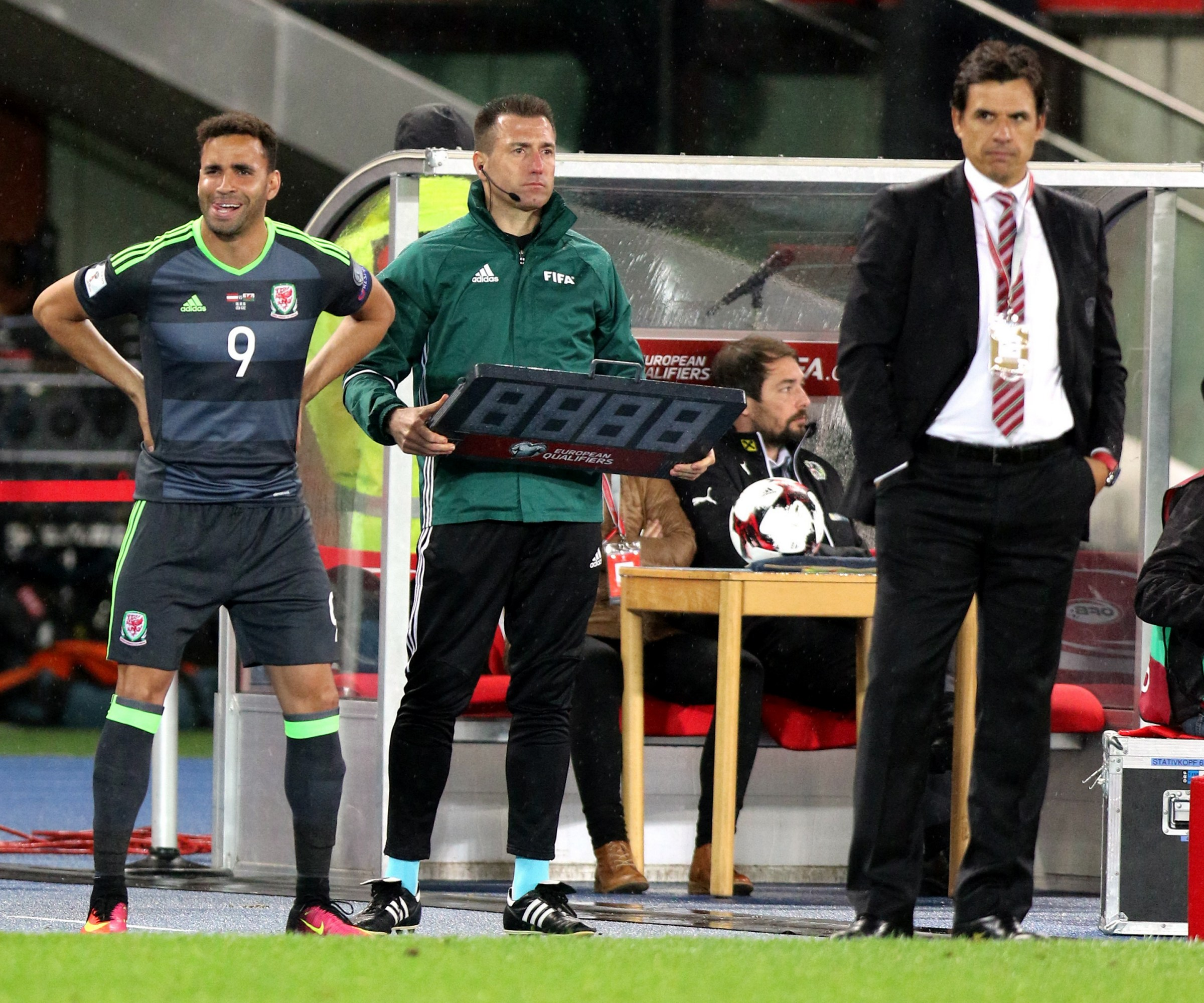 2018 FIFA World Cup qualification – UEFA Group D) – Austria (red shirts) vs. Wales (white shirts) 2-2 (1-2) – 2016-10-06 in Vienna, Ernst-Happel-Stadion – The photo shows from left to right Hal Robson-Kanu, 4th official Hüseyin Göcek (Turkey) and teamchef Chris Coleman (Wales).